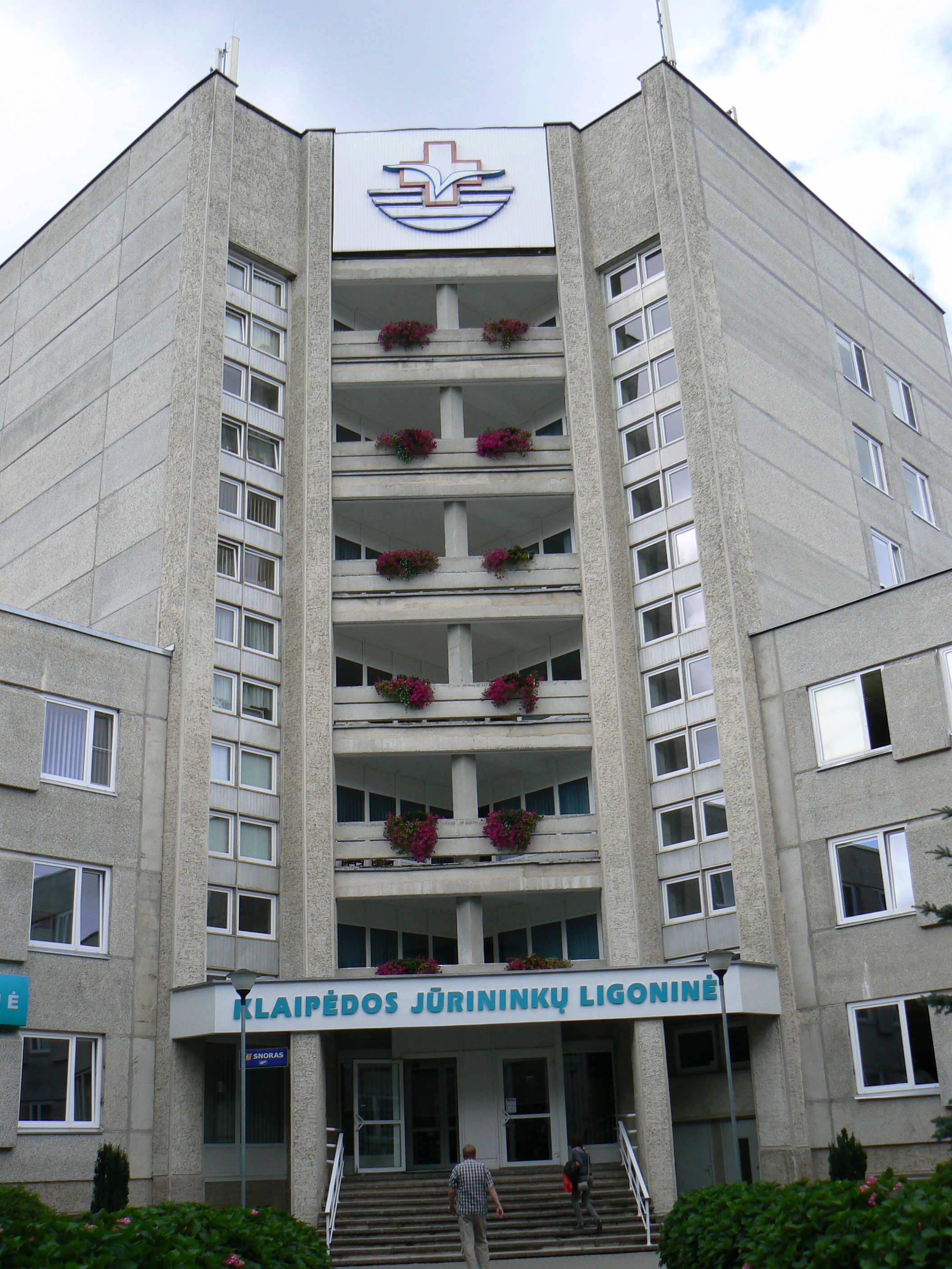 Hospital Jūrininkų in Klaipėda